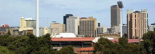 Adelaide's city syline This photo is taken by me, Jamie Cameron. I copped it and resized it so it's just the skyline --Jamiec1962 19:53, 22 June 2007 (UTC) Category:Images of Adelaide